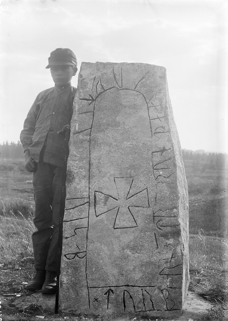 Boy at runestone Ög 151 in Furingstad. The inscription says: " Torbjörn raised this stone in memory of V., Sven's brother."